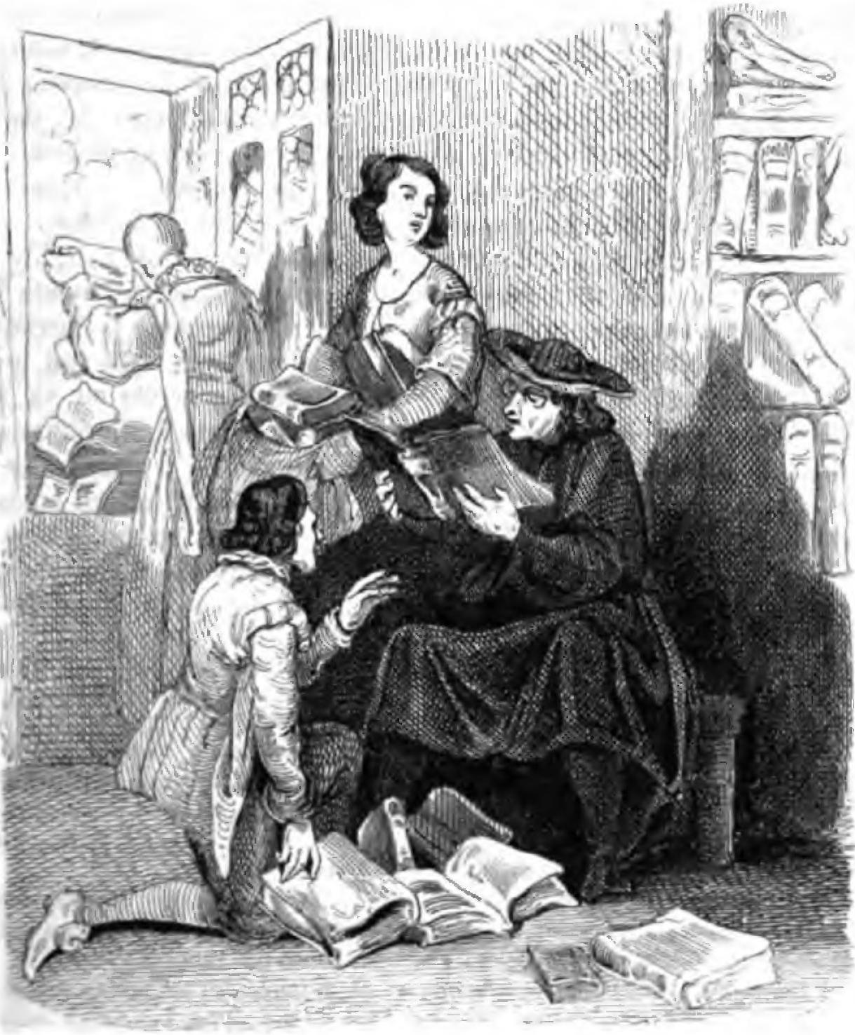 Ritaglio